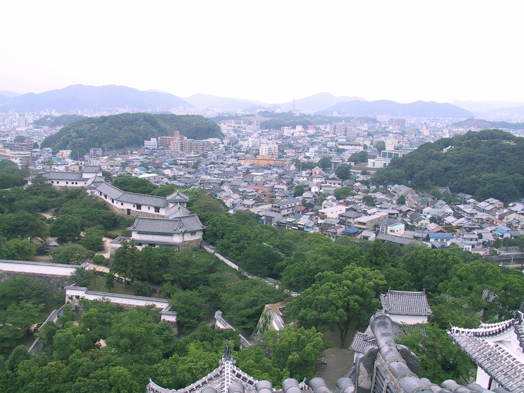 The grounds of Himeji Castle and the city of Himeji, Hyogo, Japan.